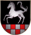 Coat of arms of Pferdsfeld